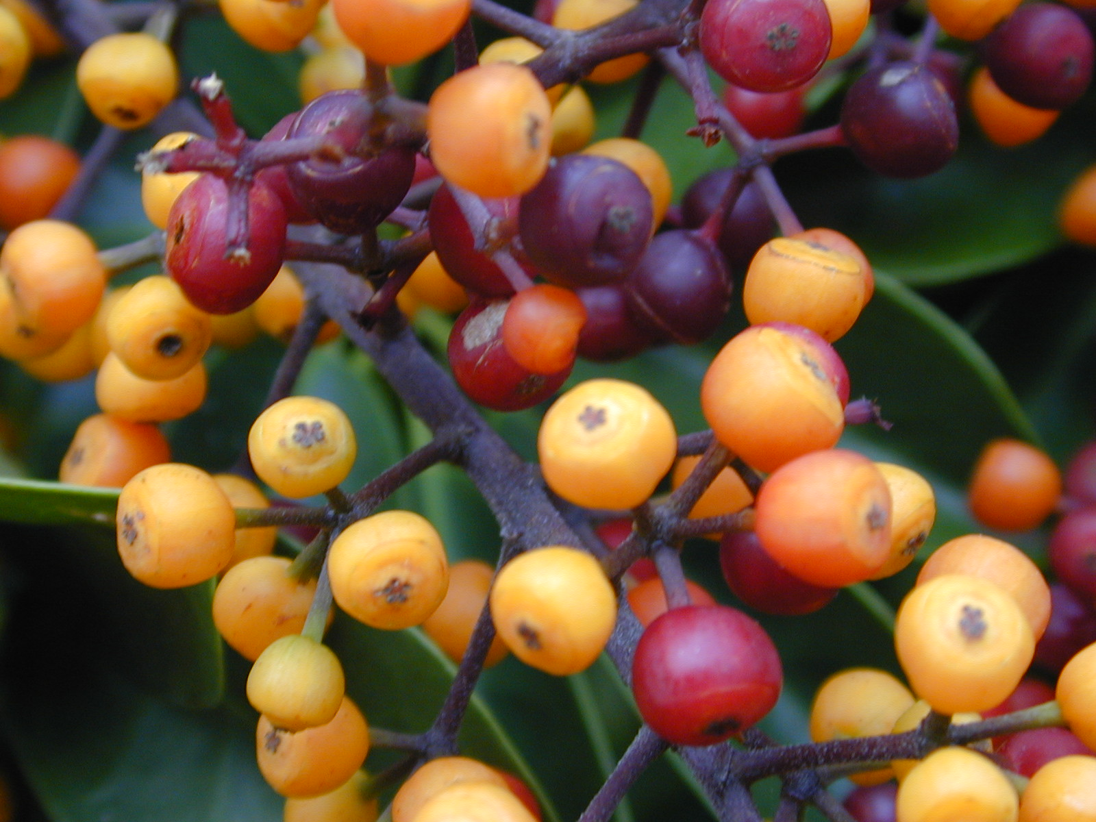 Schefflera arboricola (fruit). Location: Maui, Makawao Kee Rd